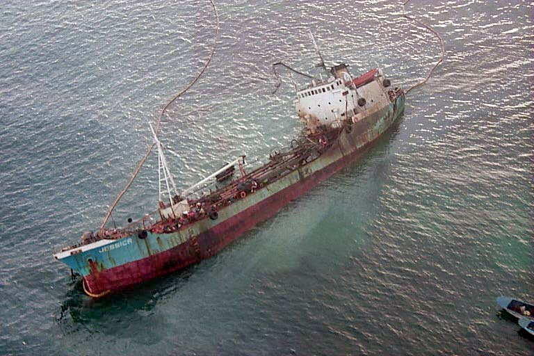 The tank vessel Jessica ran hard aground in the Galapagos archipelago January 16, 2001, spilling about 200,000 gallons of oil into a pristine environment known for unique wildlife and aquatic species.